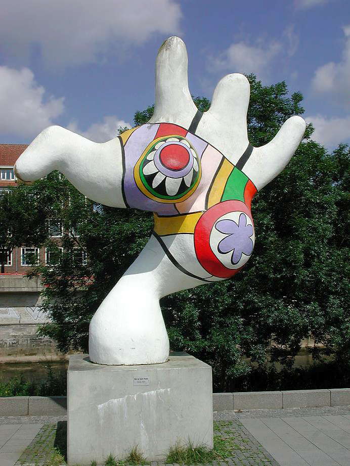 Nanas, 1974. Sculpture by Niki de Saint Phalle. Location: Leibnizufer, Hannover,Germany.